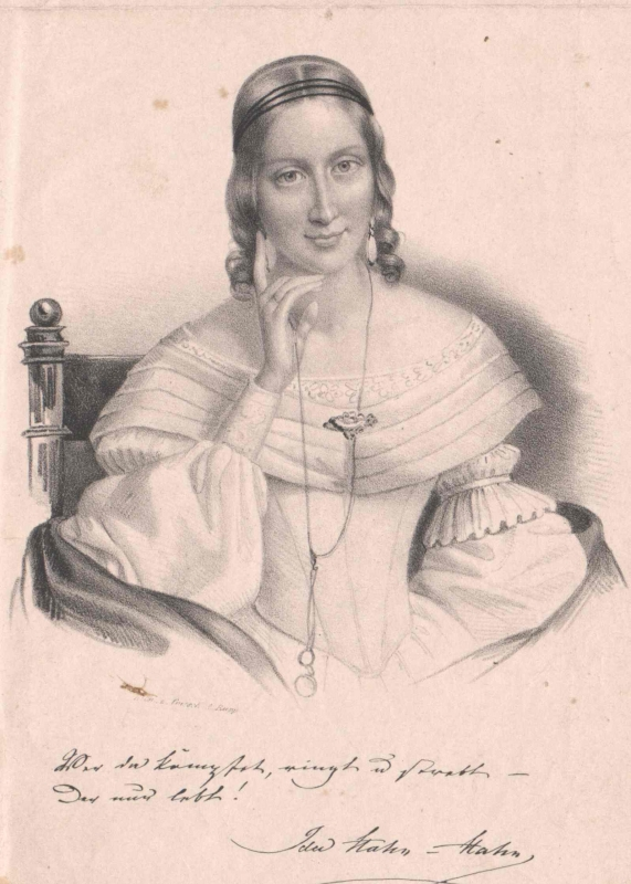 picture of Ida Gräfin von Hahn-Hahn